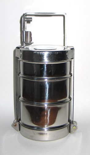 Indian Lunch box known as a dabba. Dabbas may be carried by Dabbawalas